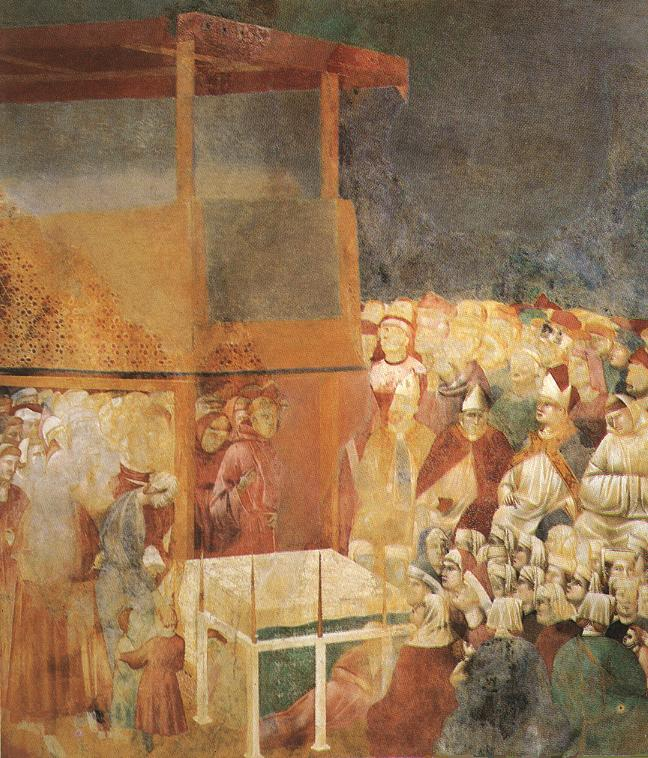 Legend of St Francis